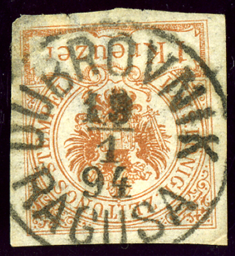 1 kreuzer Newspaper Tax bilingual cancelled in 1894 at DUBROVNIK-RAGUSA (Croatia)